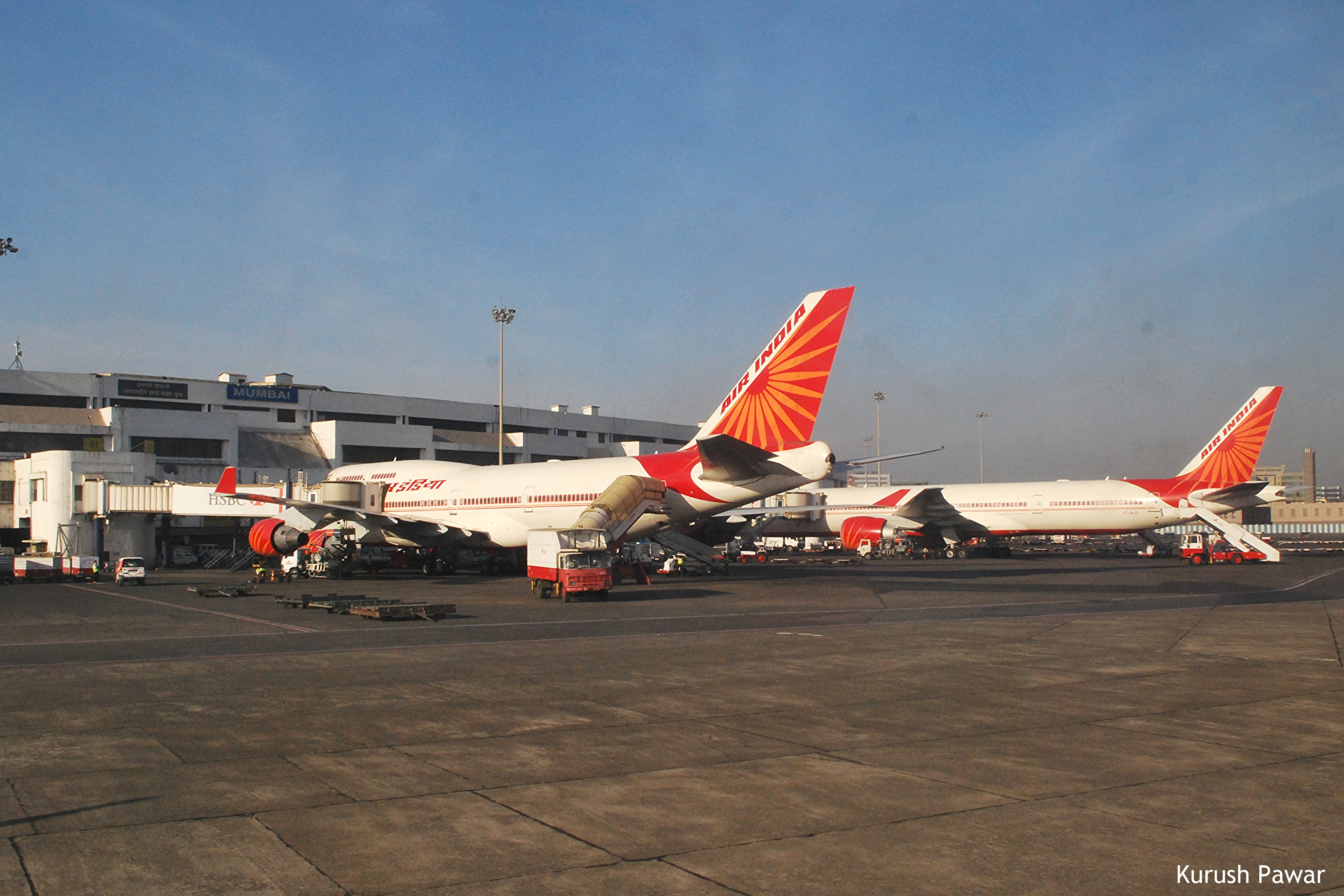 On arrival at the international terminal at BOM, I am greeted by two 'Maharajas' - Khajuraho (VT-ESO Air India 744) and Manipur (VT-ALQ Air India 773ER).